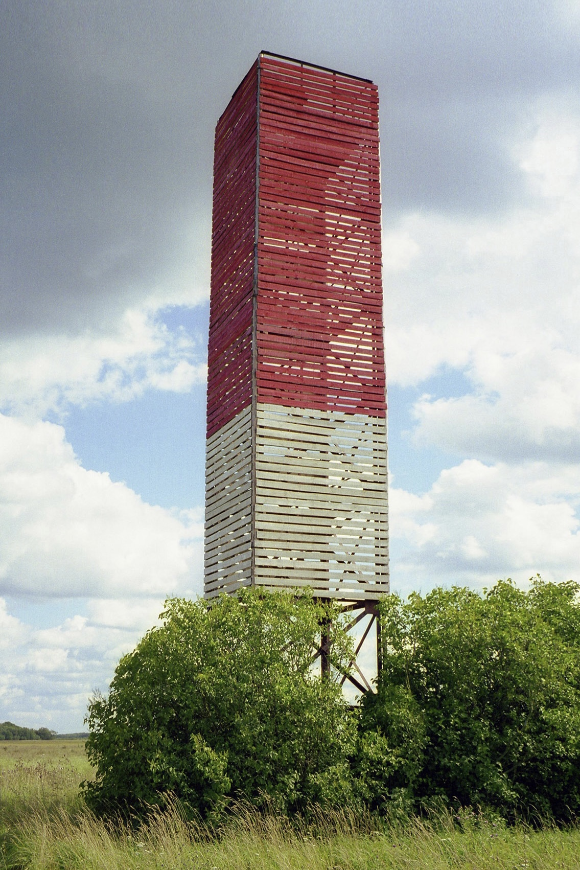 Valaste daymark